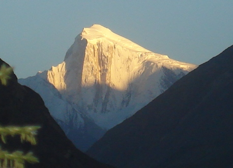 Spantik (aka Golden Peak or Ghenish Chhish, 7027m) and its steep NW-face from Karimabad in the Hunza Valley.